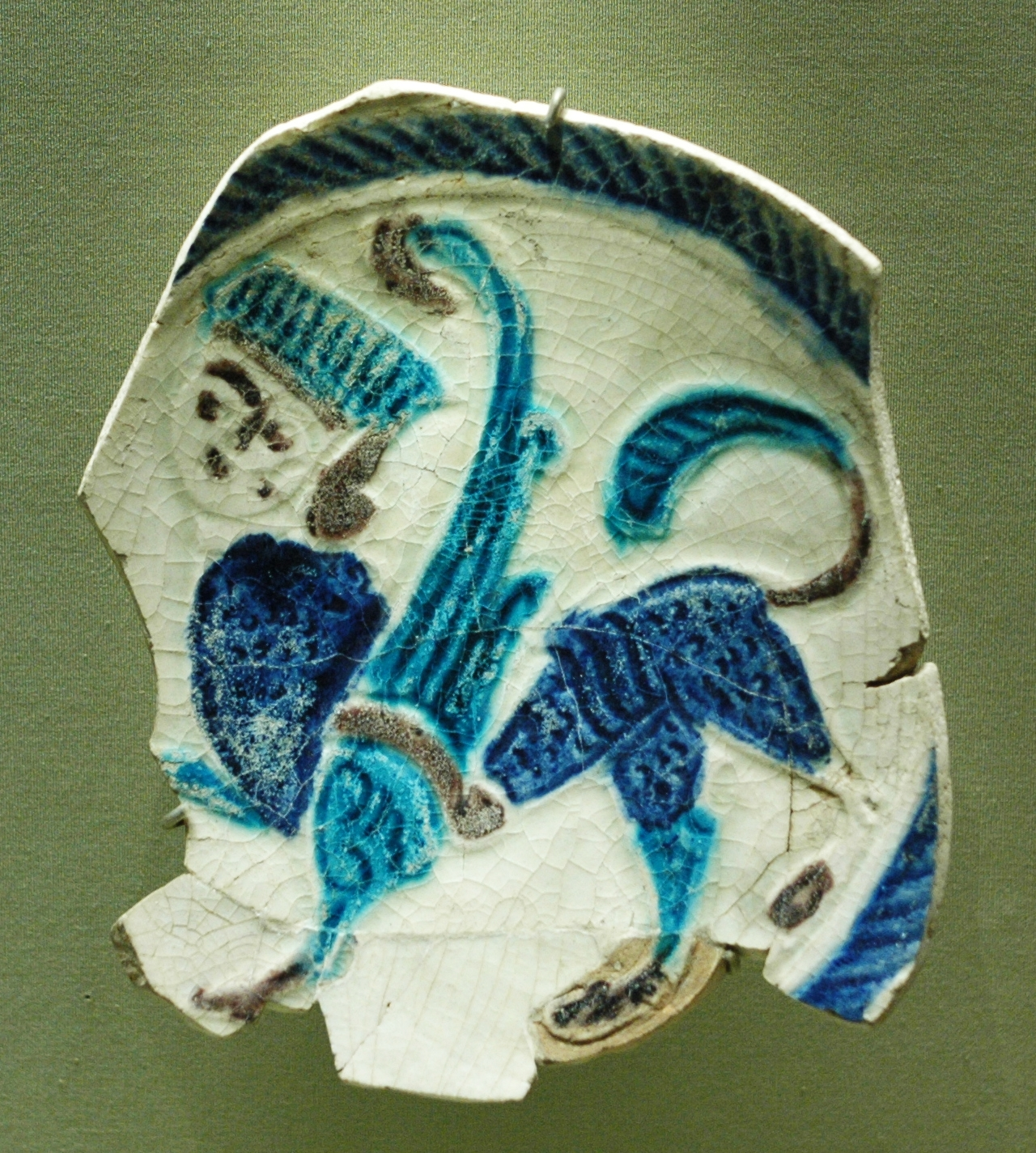 Sphinx. Fragment of a plate in the lakabi style.